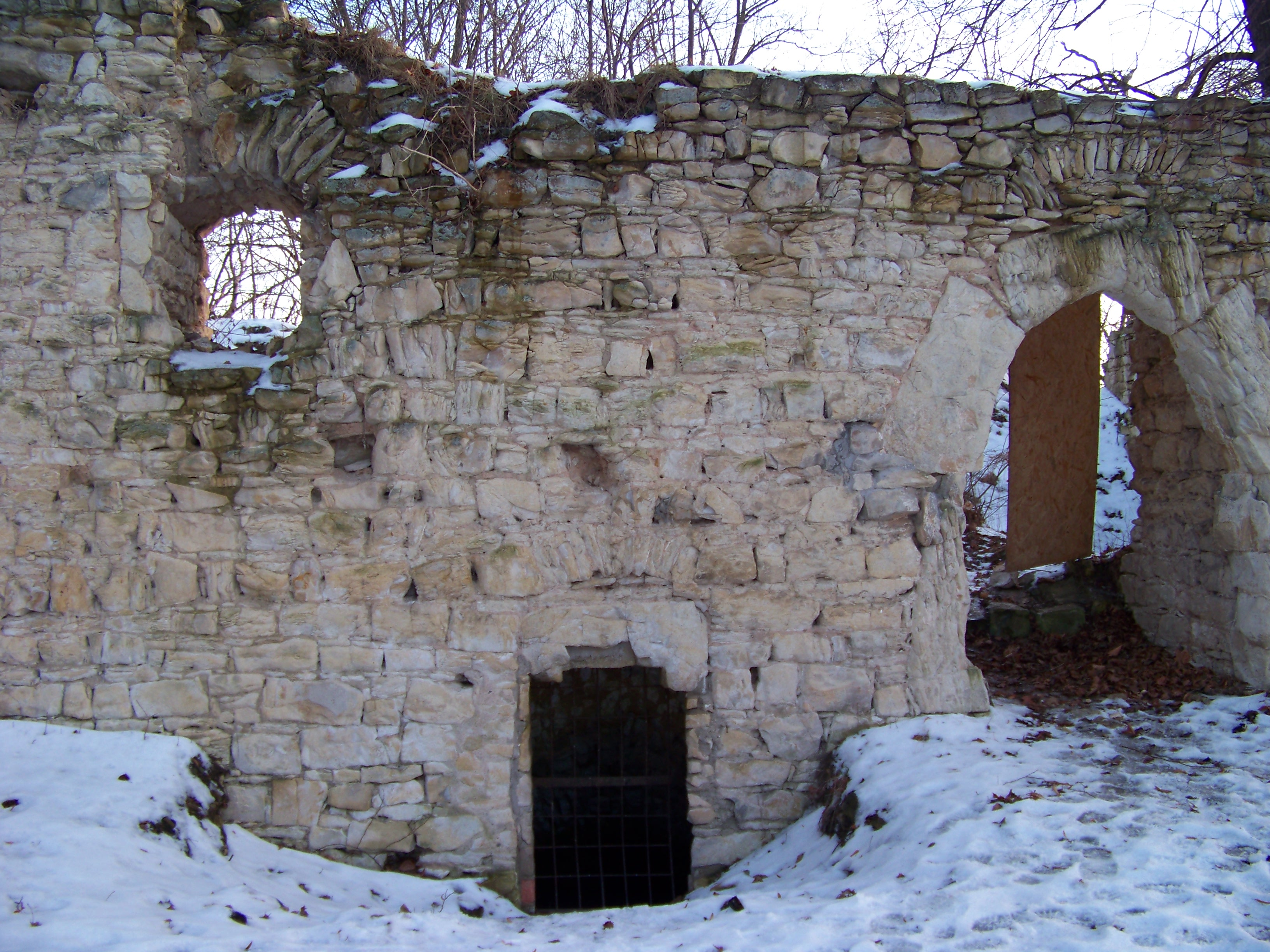 Ruin of Pravda Castle. Pnětluky, Louny District, the Czech Republic.